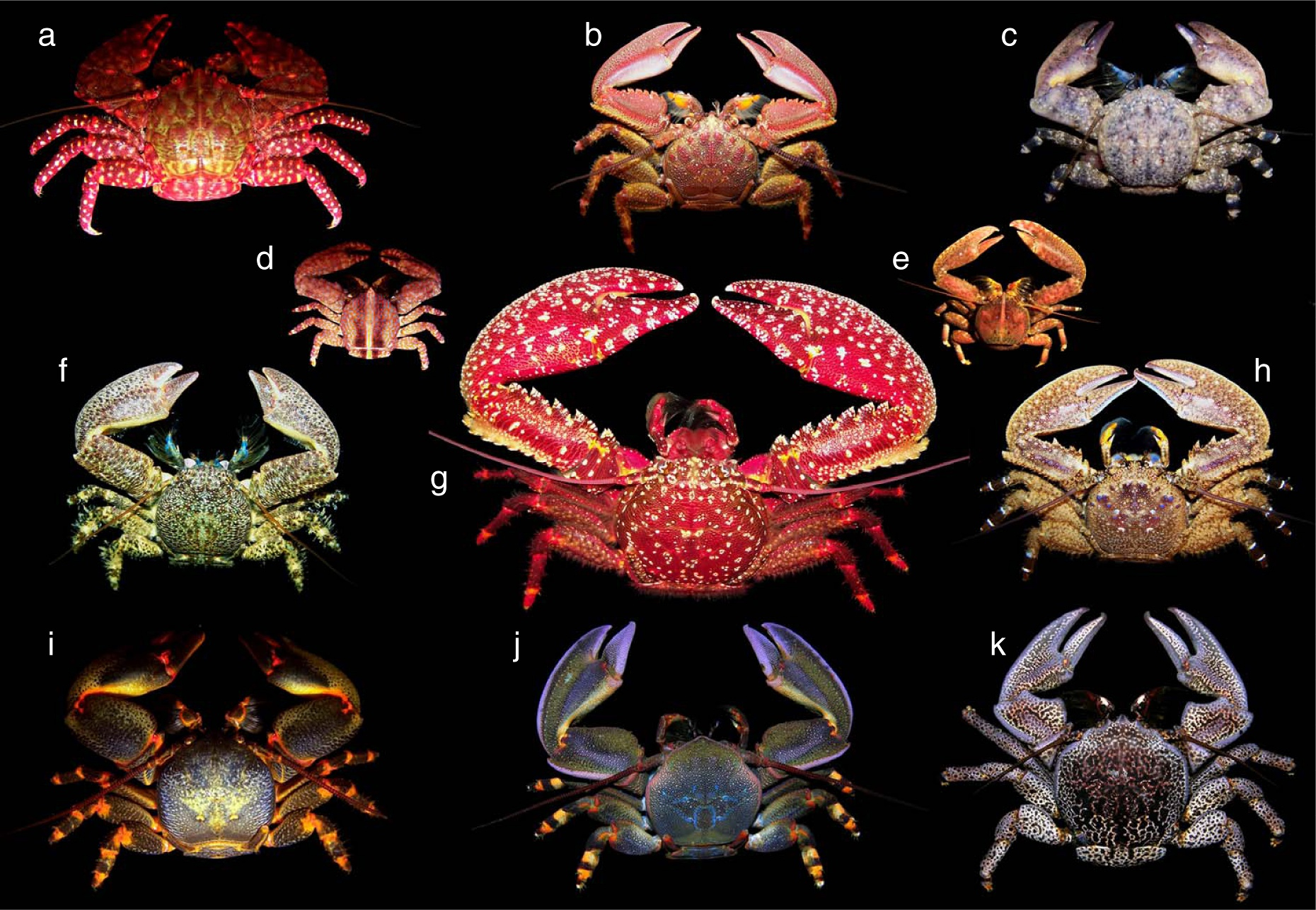 Species in the genera Petrolisthes (6 species) and the related genera Allopetrolisthes (3 species) and Liopetrolisthes (2 species), all of them native to the south eastern Pacific. (A) Allopetrolisthes spinifrons, (B) Petrolisthes tuberculosus, (C) Allopetrolisthes angulosus, (D) Liopetrolisthes mitra, (E) Liopetrolisthes patagonicus, (F) Petrolisthes granulosus, (G) Petrolisthes desmarestii, (H) Petrolisthes tuberculatus, (I) Petrolisthes laevigatus, (J) Petrolisthes violaceus, (K) Allopetrolisthes punctatus.